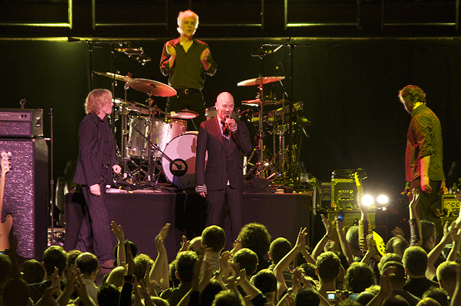 at the Albert Hall 24.03.08